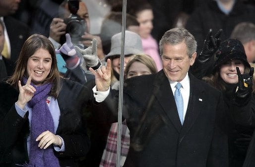 President George W. Bush gestures the 'Hook 'em, horns," the salute of the University of Texas Longhorns, as he watches the Inaugural Parade with his family and friends from the reviewing stand in front of the White House